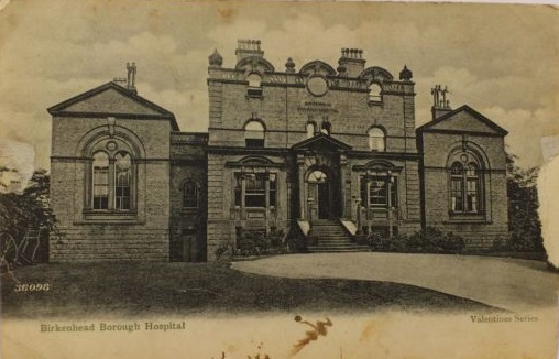 Old postcard of Birkenhead Borough Hospital